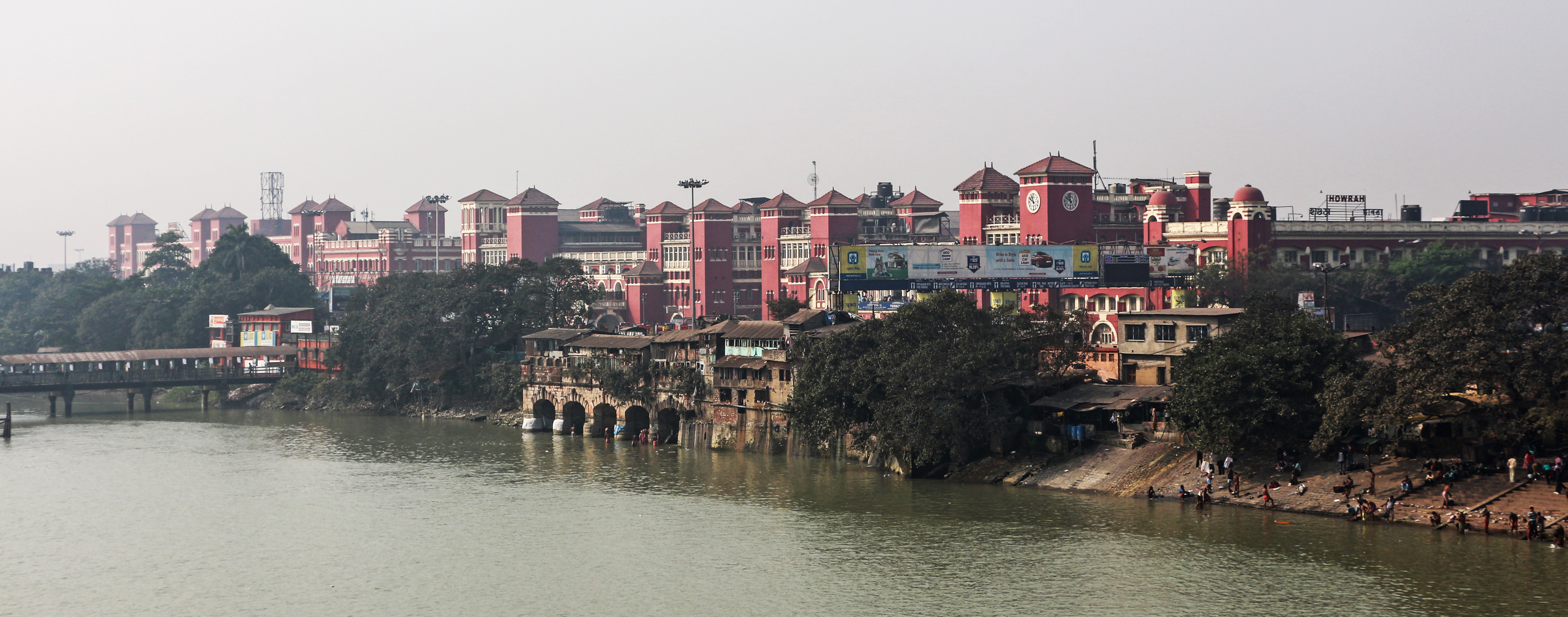 Howrah Railway Station seen from the Howrah Bridge, Kolkata, India